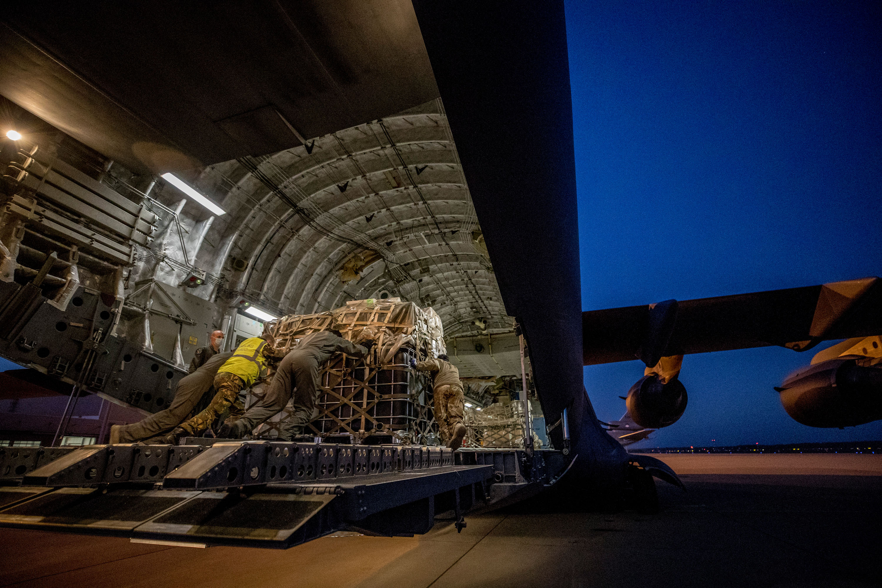 Medical shipment of the Royal Air Force to Sint Maarten